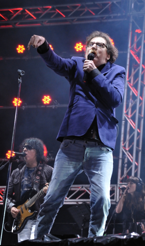 Charly García at the Cosquín Rock, 12 / 02